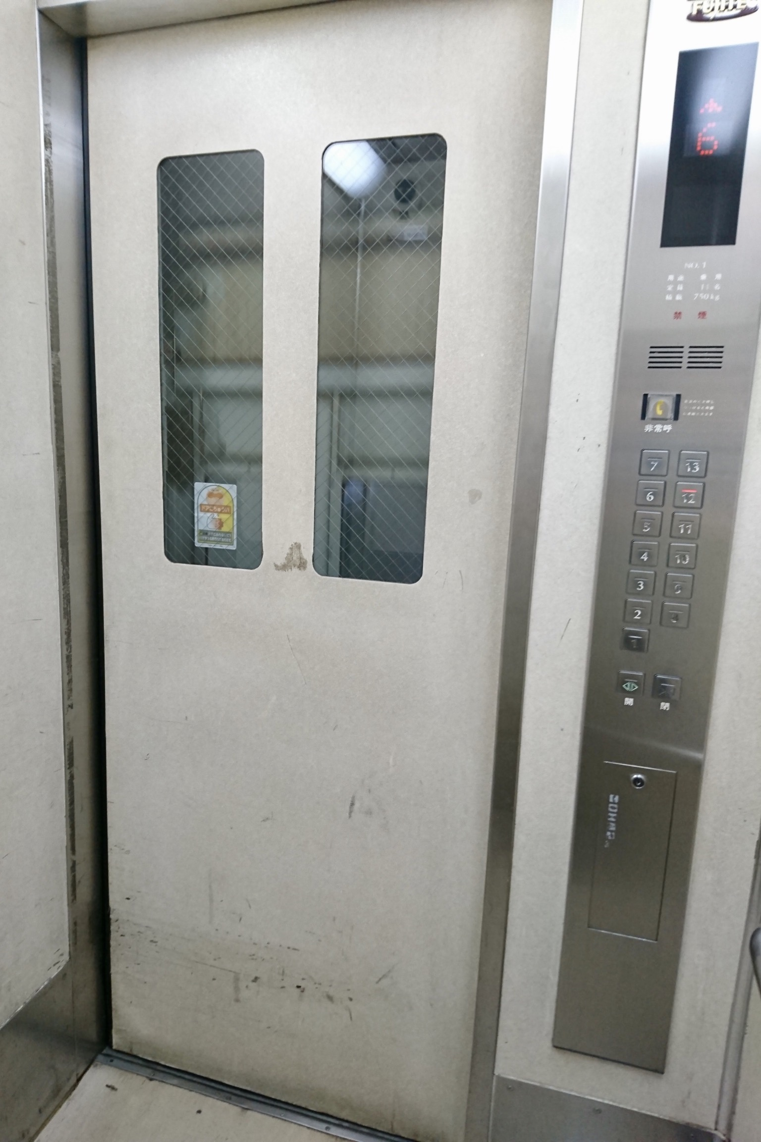 Inside of elevator made by Fujitec (one-side open and single door)